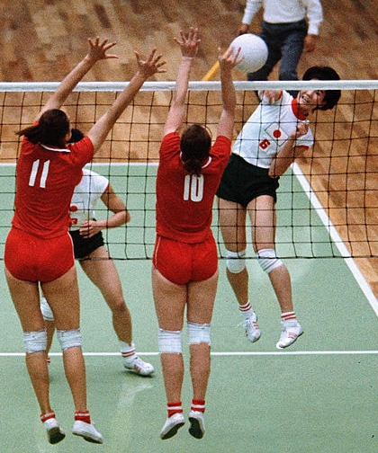 Sata Isobe of Japan spikes the ball during the Women's Volleyball final between Japan and Soviet Union during Tokyo Olympic at Komazawa Gymnasium on October 23, 1964 in Tokyo, Japan.